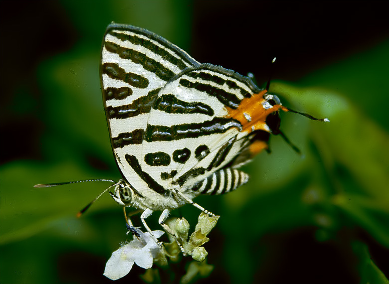 Live male specimen of Cigaritis syama from Nepal.